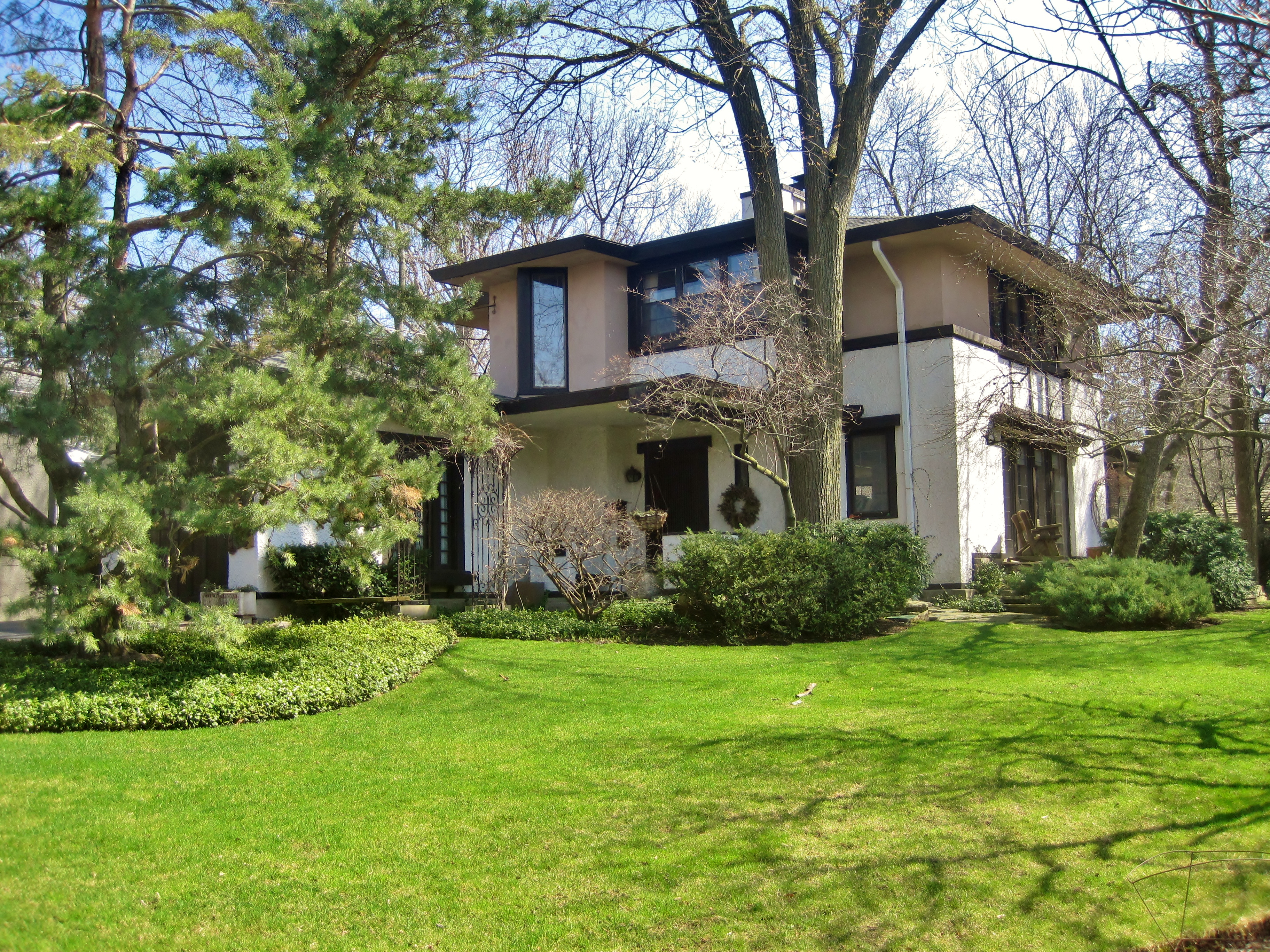 318 Maple Avenue in the Maple Avenue Maple Lane Historic District